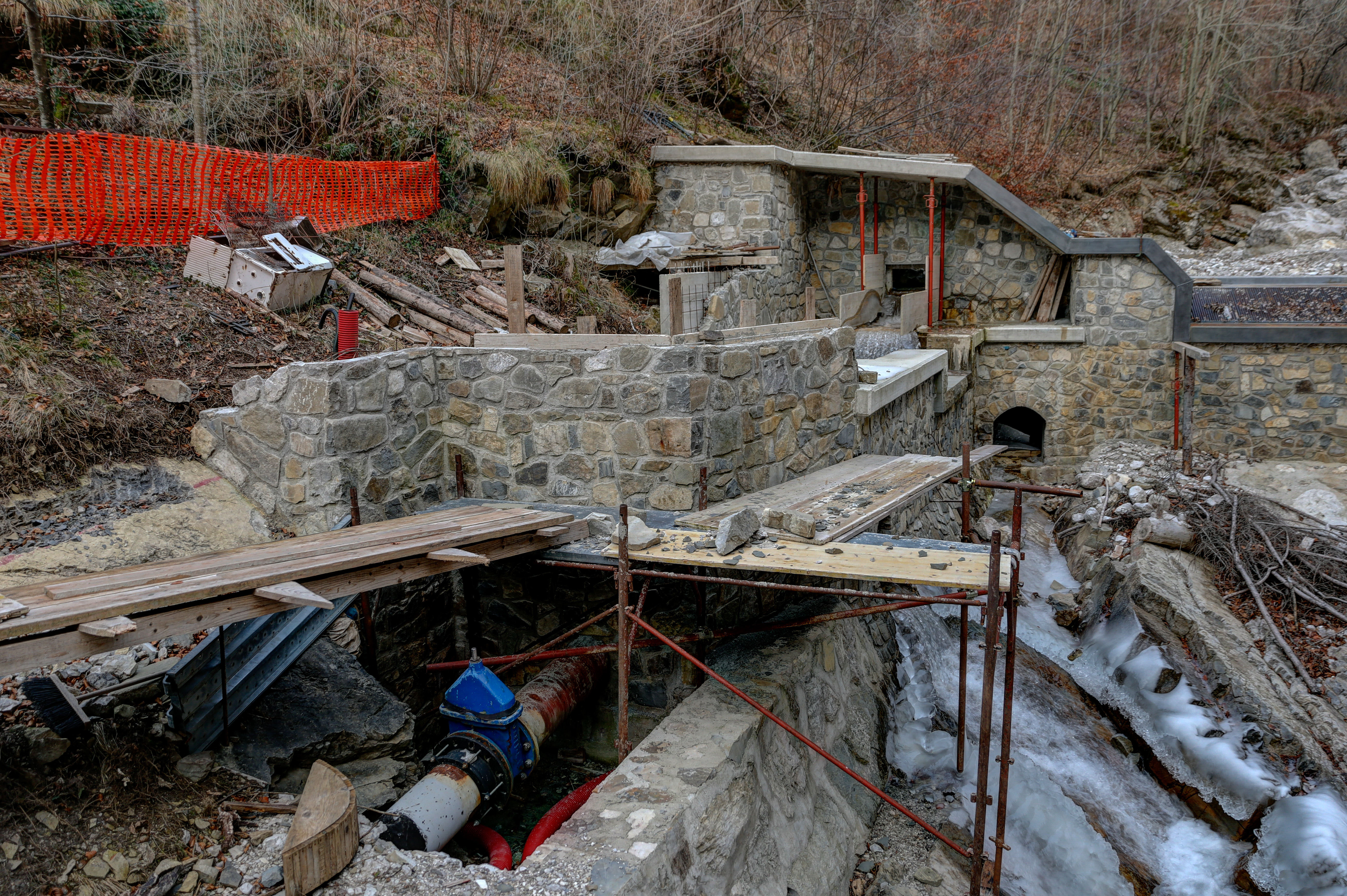 Revitalization of a hydropower plant in Dordolla in the Val d'Aupa in the Carnic Alps, community Moggio Udinese / Friuli-Venezia Giulia / Italy / EU.